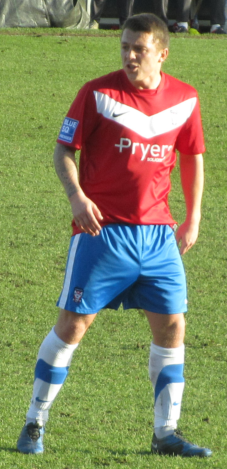 Scott Brown